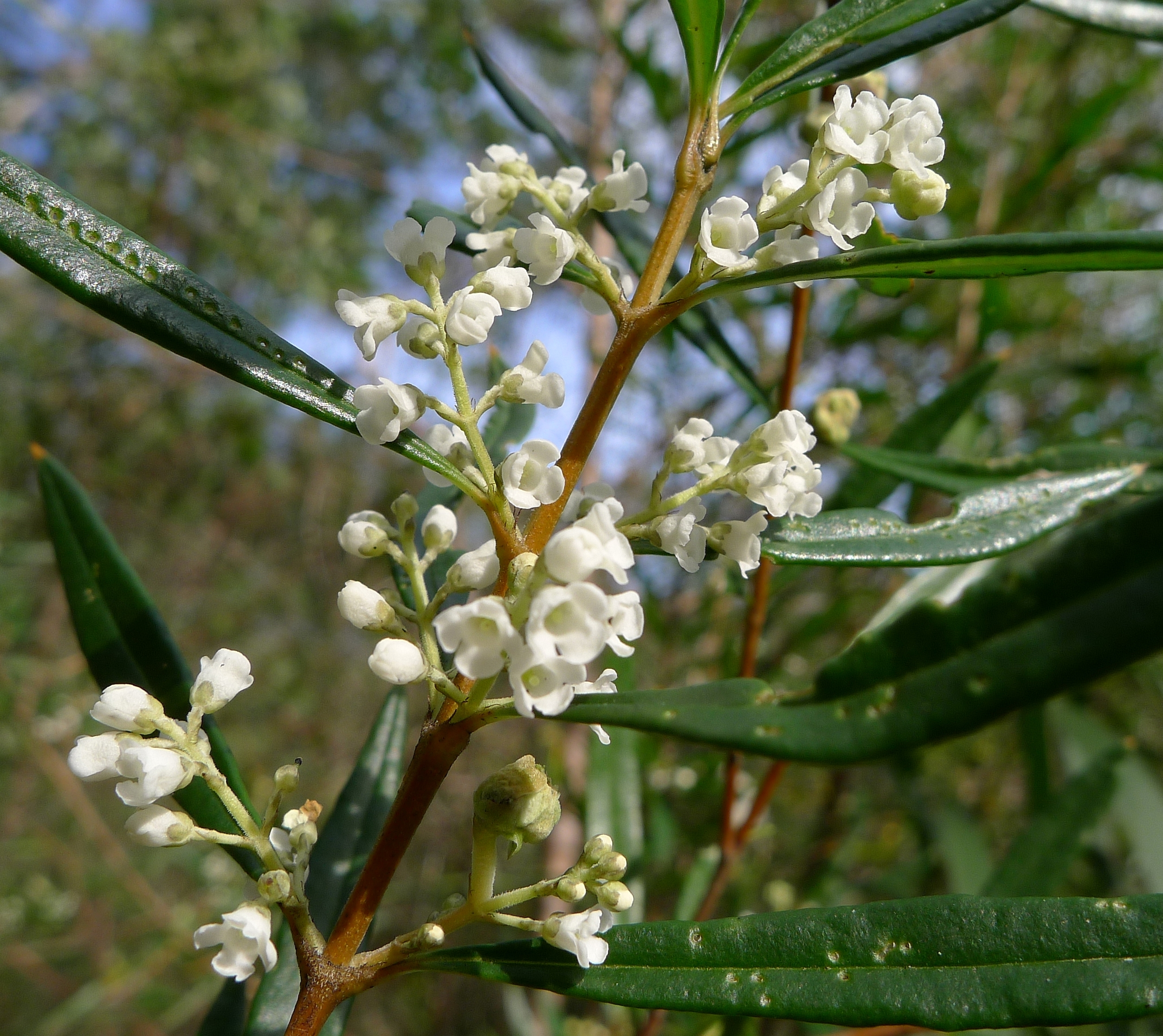 Logania albiflora flowers and leaves. Leaves are opposite and decussate where each pair of leaves is orthogonal to the next pair of leaves as you move up the stem. Heathcote National Park, NSW Australia, August 2013.